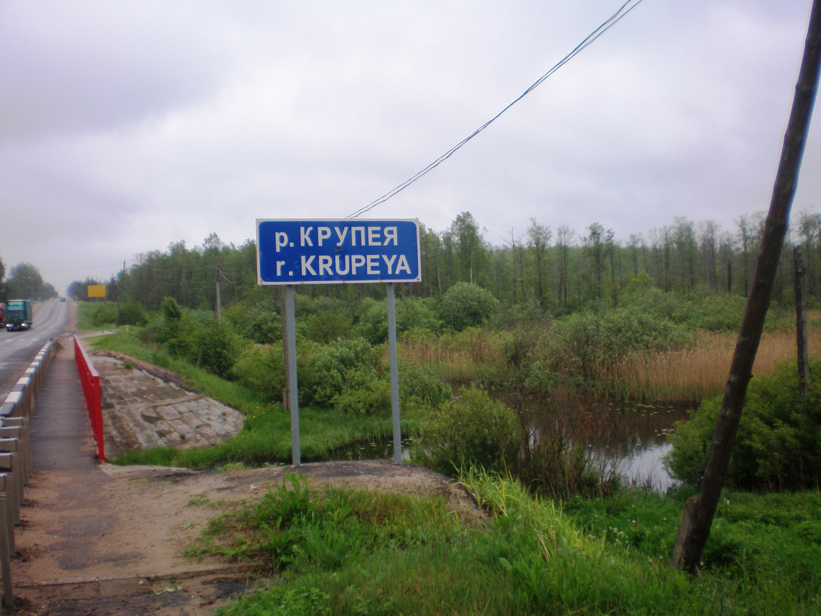 River Krupeya near Pustoshka, Pskov Oblast, Russia